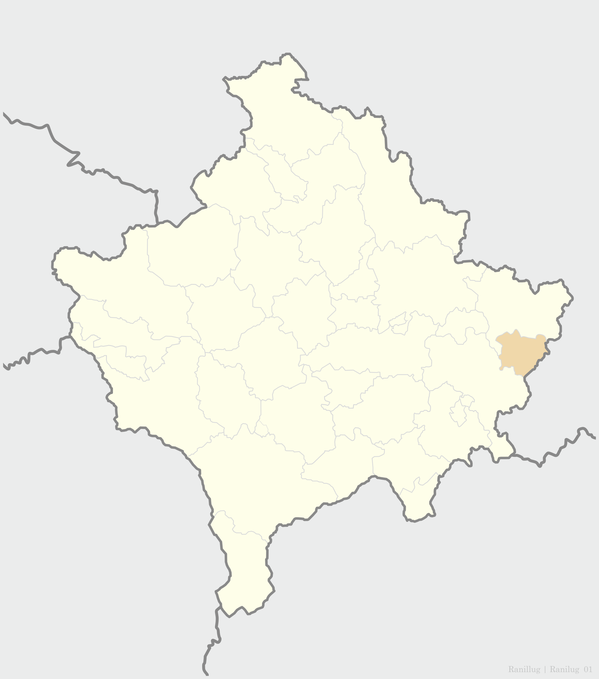 Municipality of Ranilug map